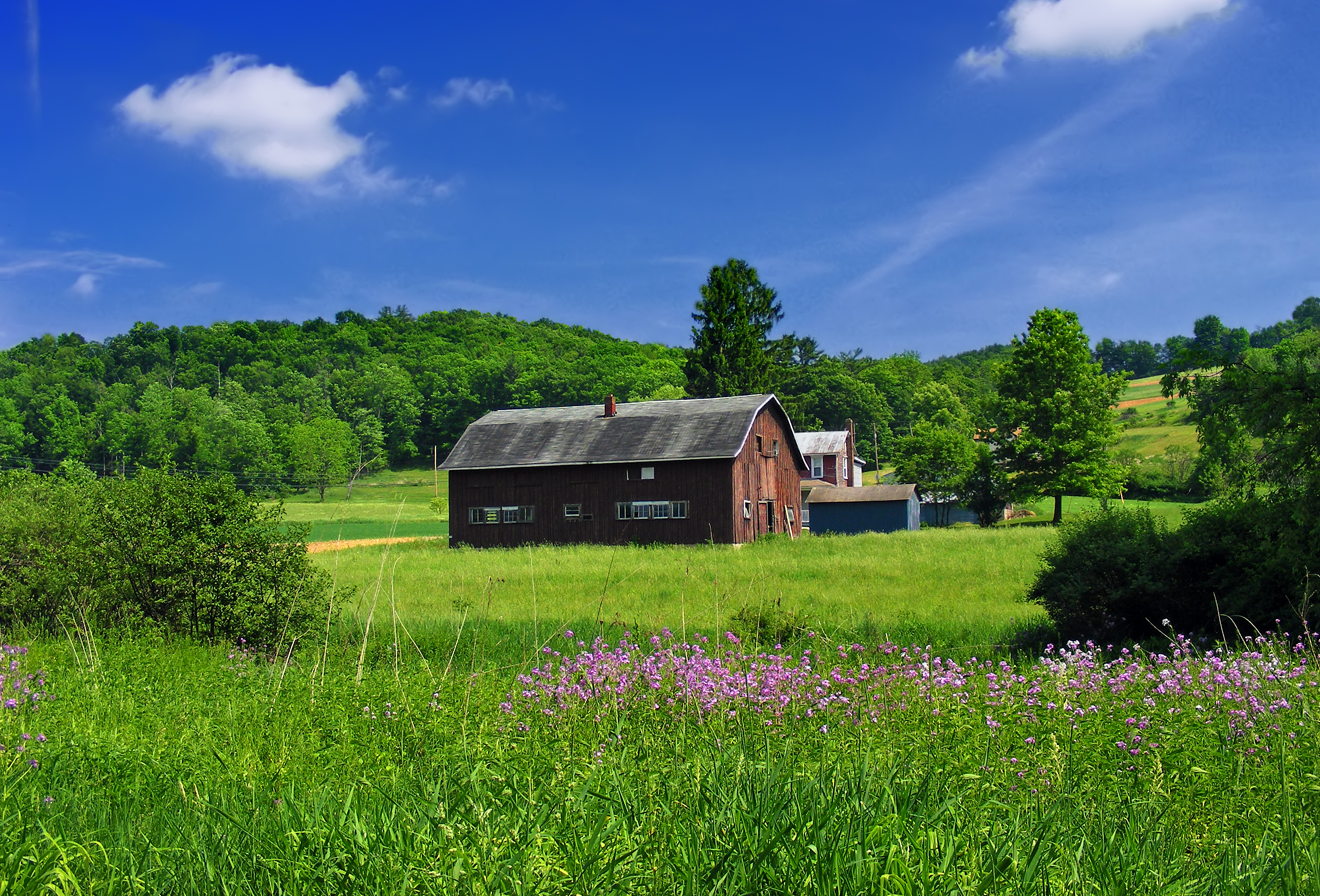 Farmstead, Benton Township, Columbia County.